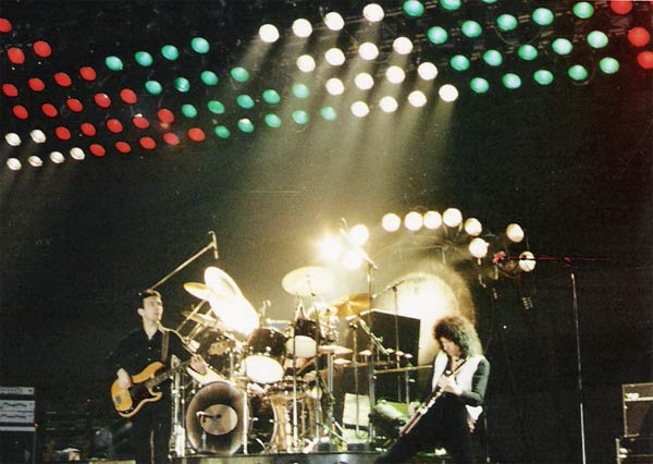 Queen live in Hannover, Germany